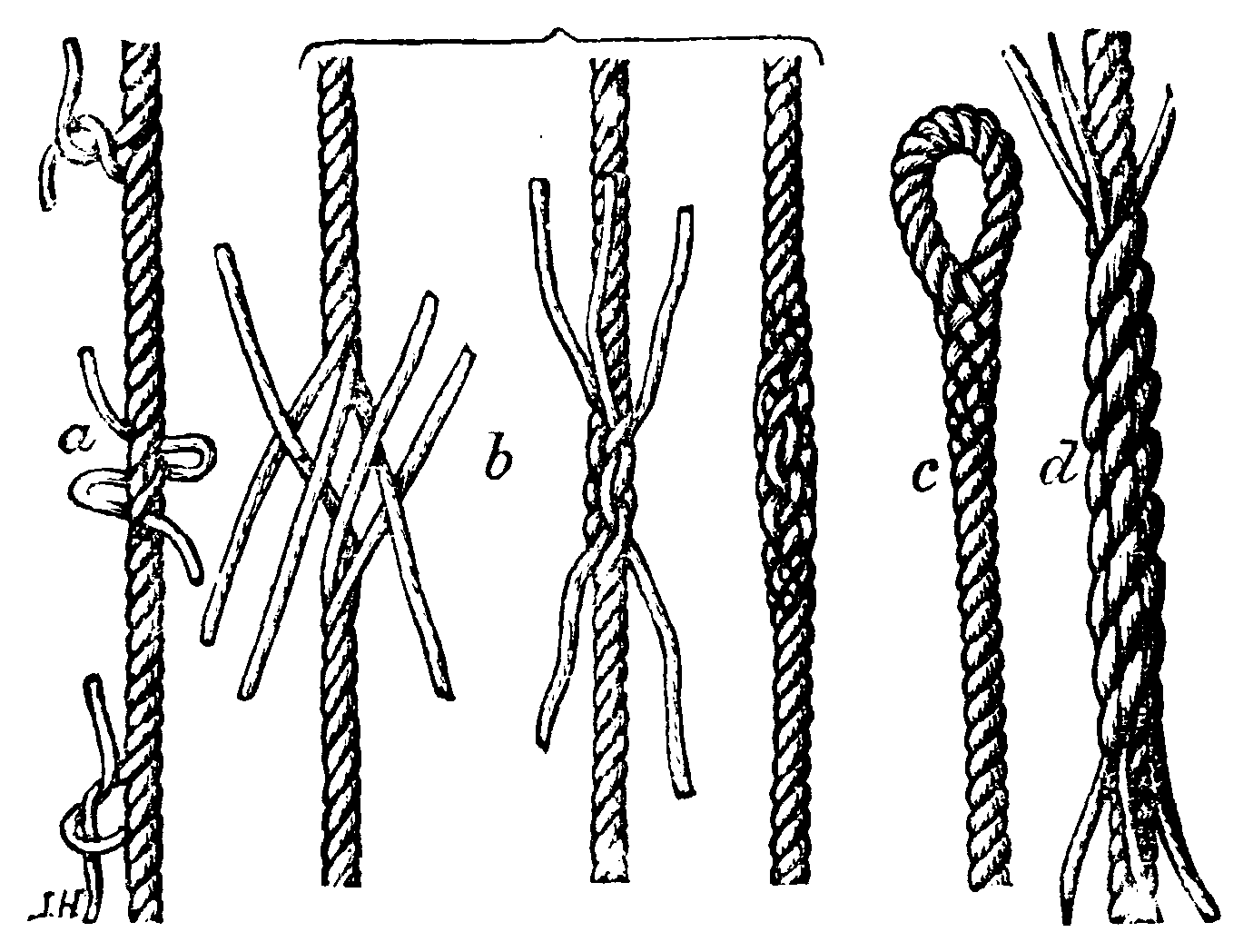 Splitsar (rope splices)